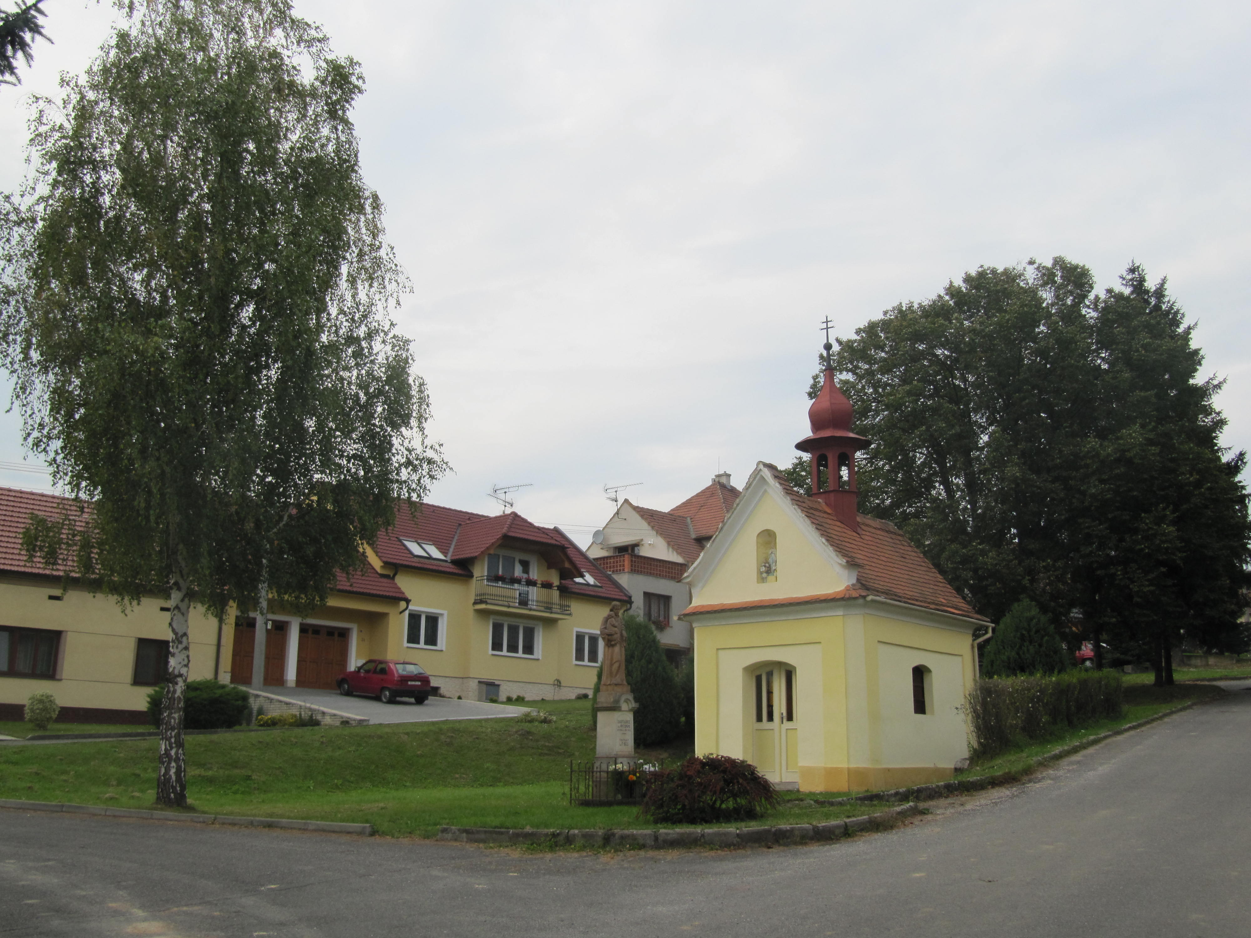 Hradčovice in Uherské Hradiště District part Lhotka, Czech Republic.St.-Barbara-chapel.